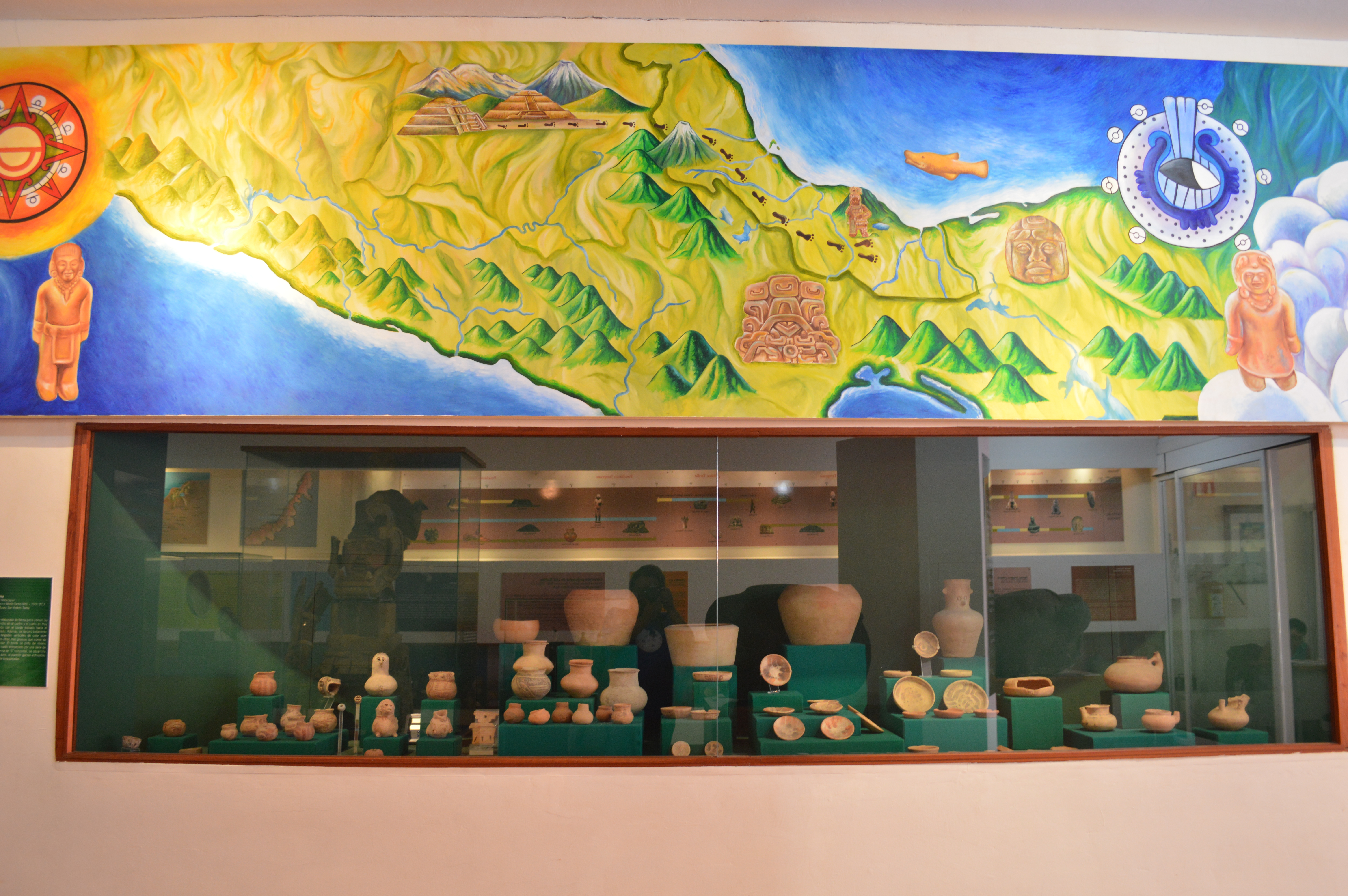 Display of pre Hispanic artifacts at the Museo Regional de San Andres Tuxtla, Veracruz, Mexico